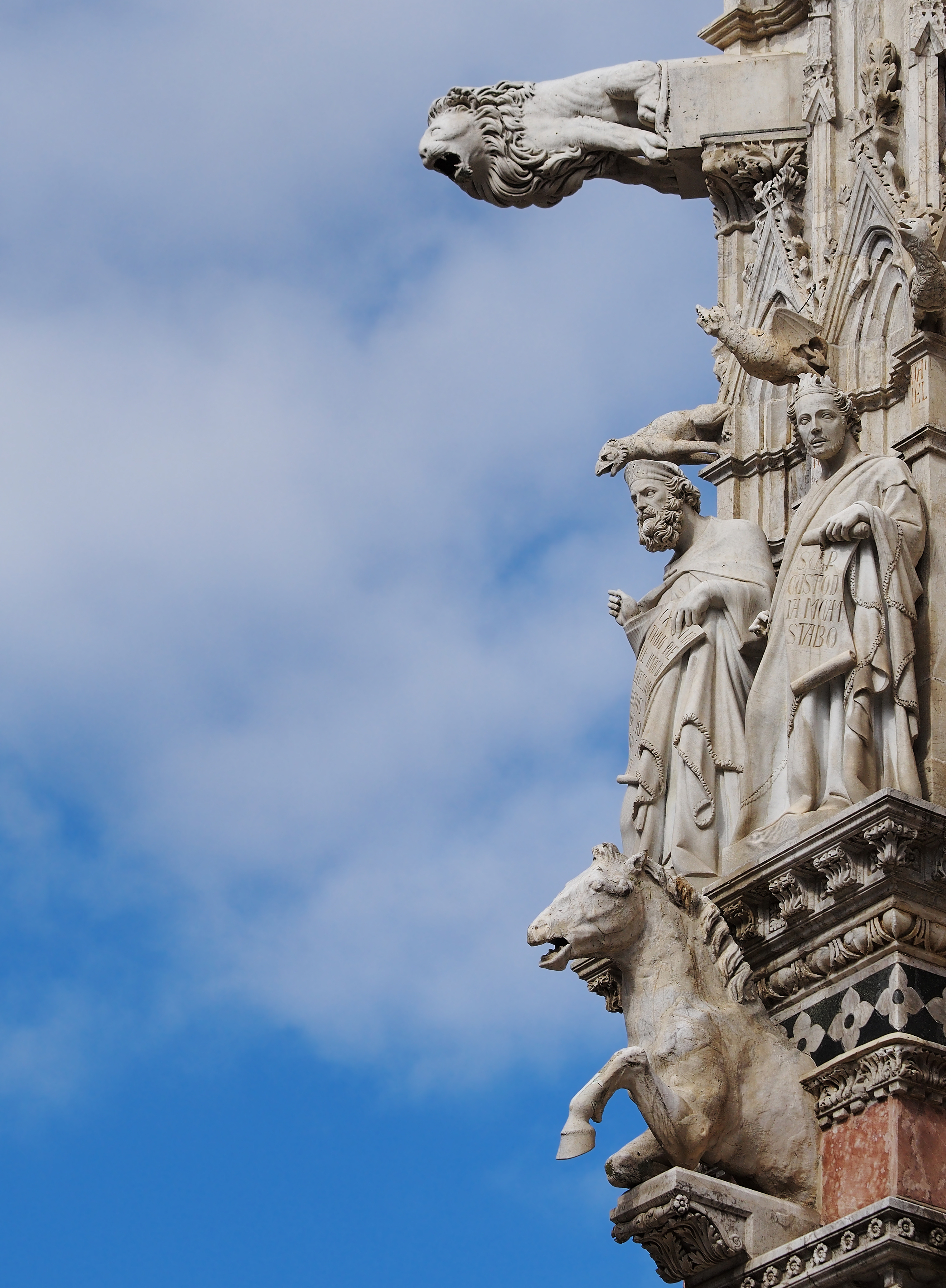 Gargoyles and Saints of Siena Cathedral facade, built 11-13. century, Italy.